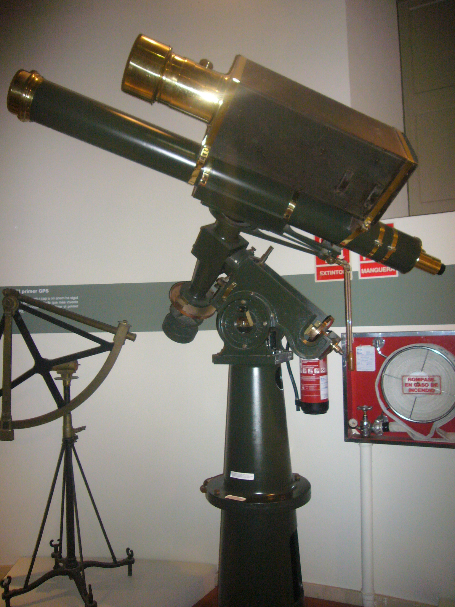 Grubb equatorial telescope with Petzval photographic camera used by Josep Comas i Solà to discover 11 asteroids and 2 comets. Currenty displayed at the interior of the Fabra observatory.